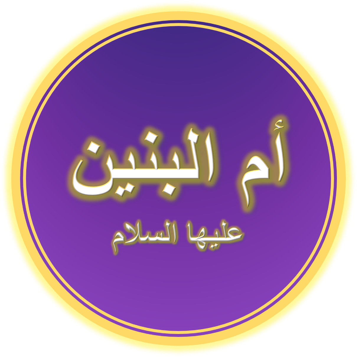 Arabic text with the name of Umm al-Banin